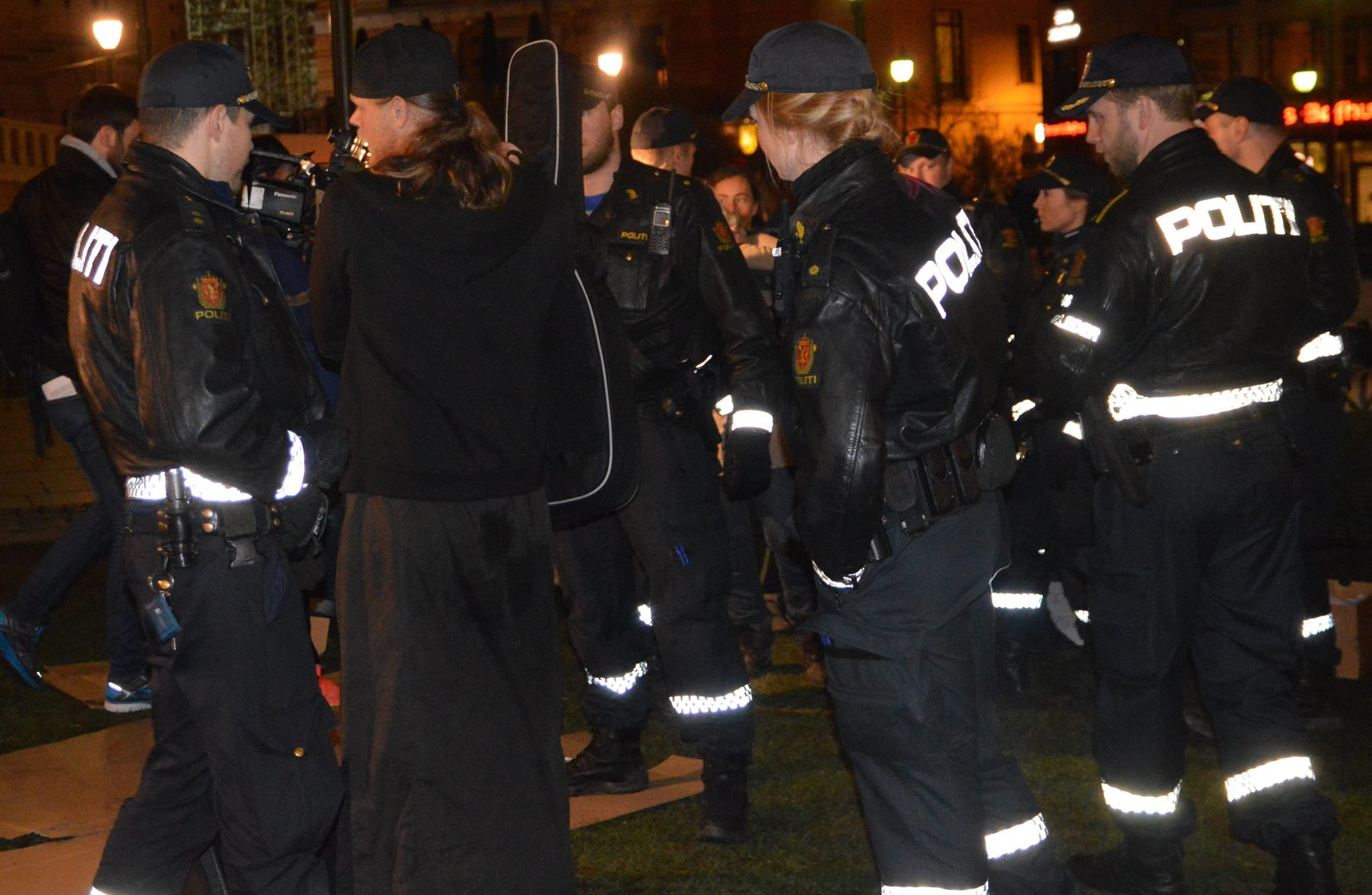 The Orthodox priest Christoforos Schuff is arrested in April 2016 for civil disobedience at a peaceful protest in front of the Norwegian Parliament in Oslo, Norway.